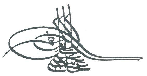 Tughra (i.e., seal or signature) of Abdülhamid I, Sultan of the Ottoman Empire (1774-1789). An explanation of the different elements composing the tughra can be found here.